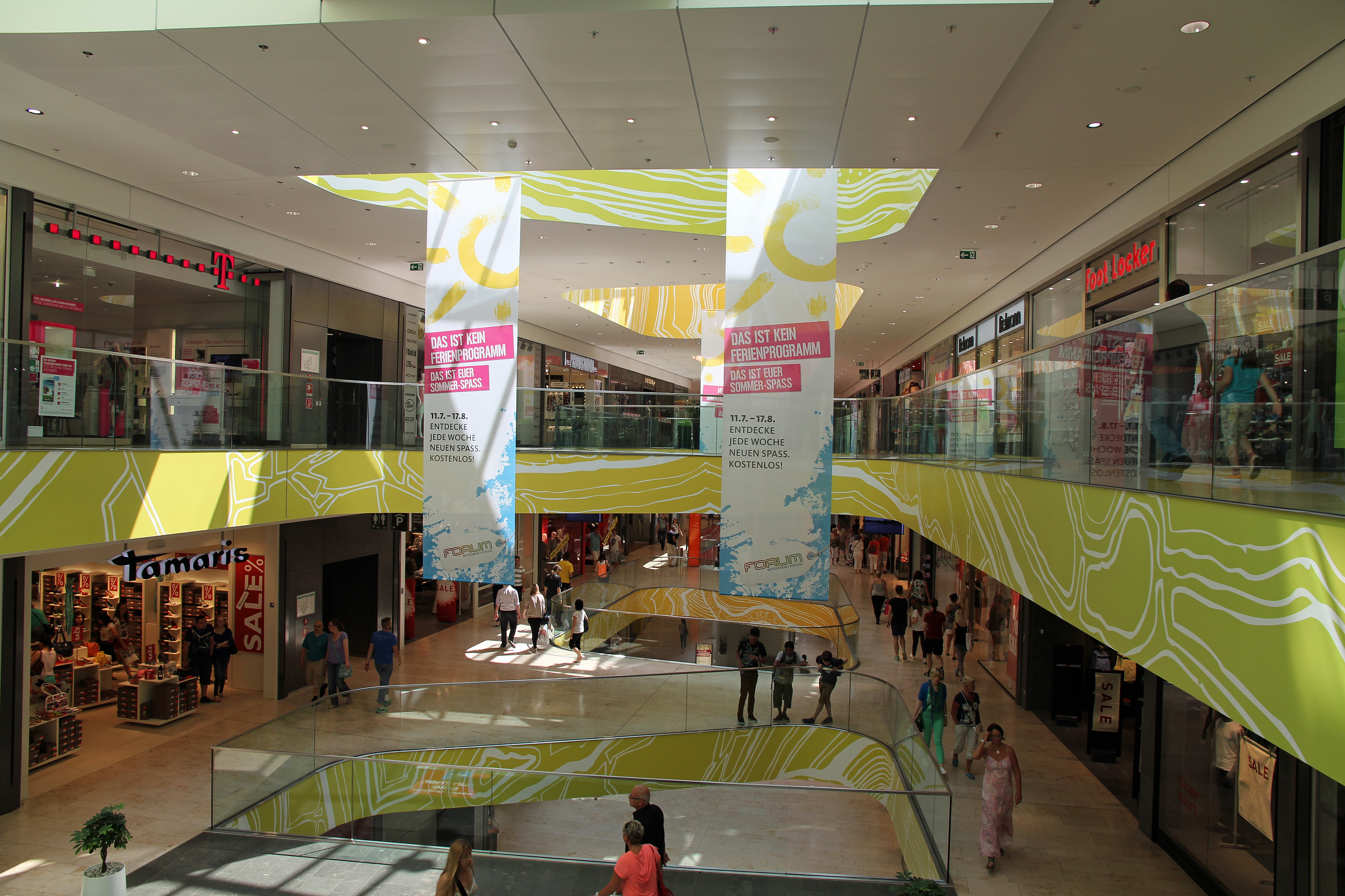 Forum Mittelrhein in Koblenz